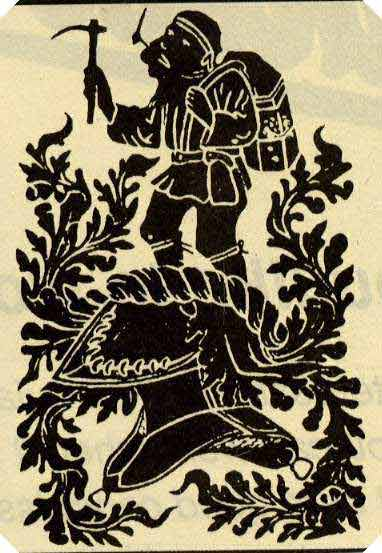 The Royal Forest of Dean Flag